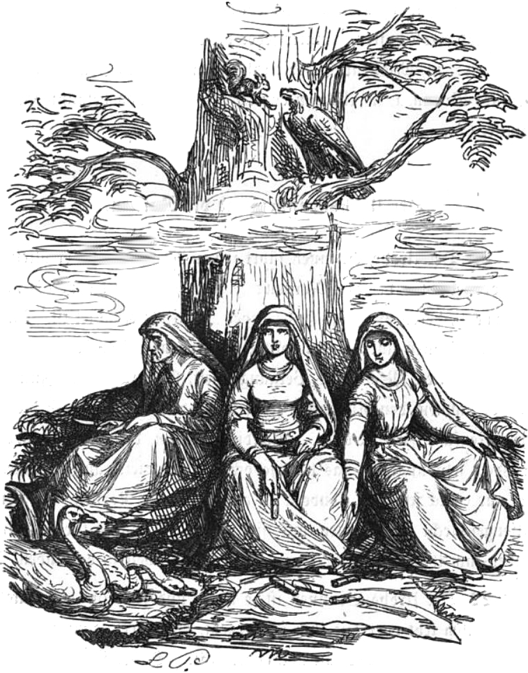 The Nornir of Norse mythology at the well Urðarbrunnr. Swans swim in the well, and the squirrel Ratatoskr speaks to the eagle Veðrfölnir above.